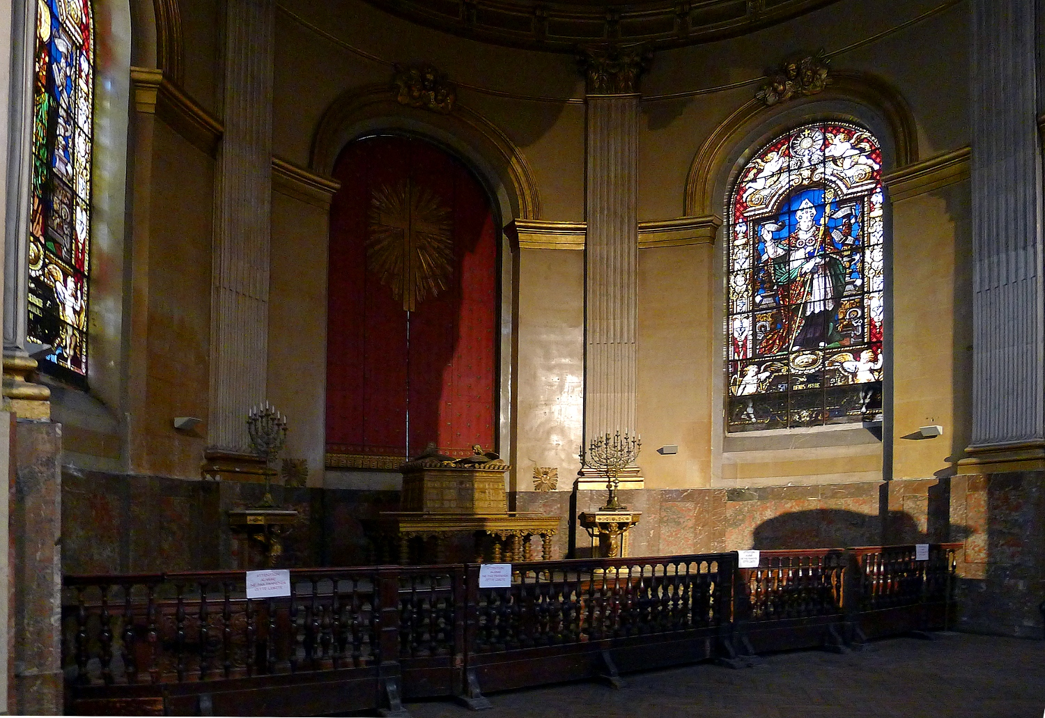 Saint-Roch church - Paris